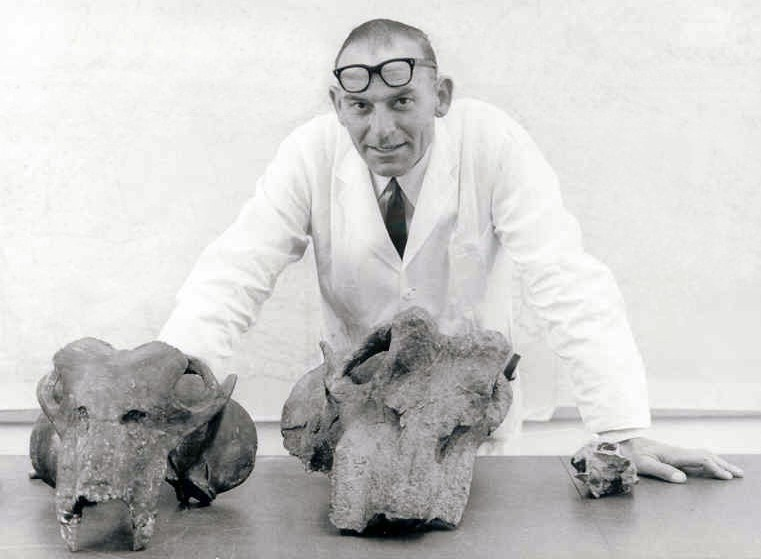 Permission obtained from the copyright holder Bernard Price Institute for Palaeontology to use this image Paul venter 15:28, 19 August 2006 (UTC)